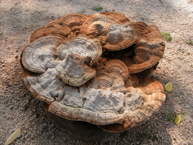 Reishi (or I believe more properly Yongchi in Korean) mushroom (Ganoderma lucidum) growing out of a stump on the grounds of Changdeokgung